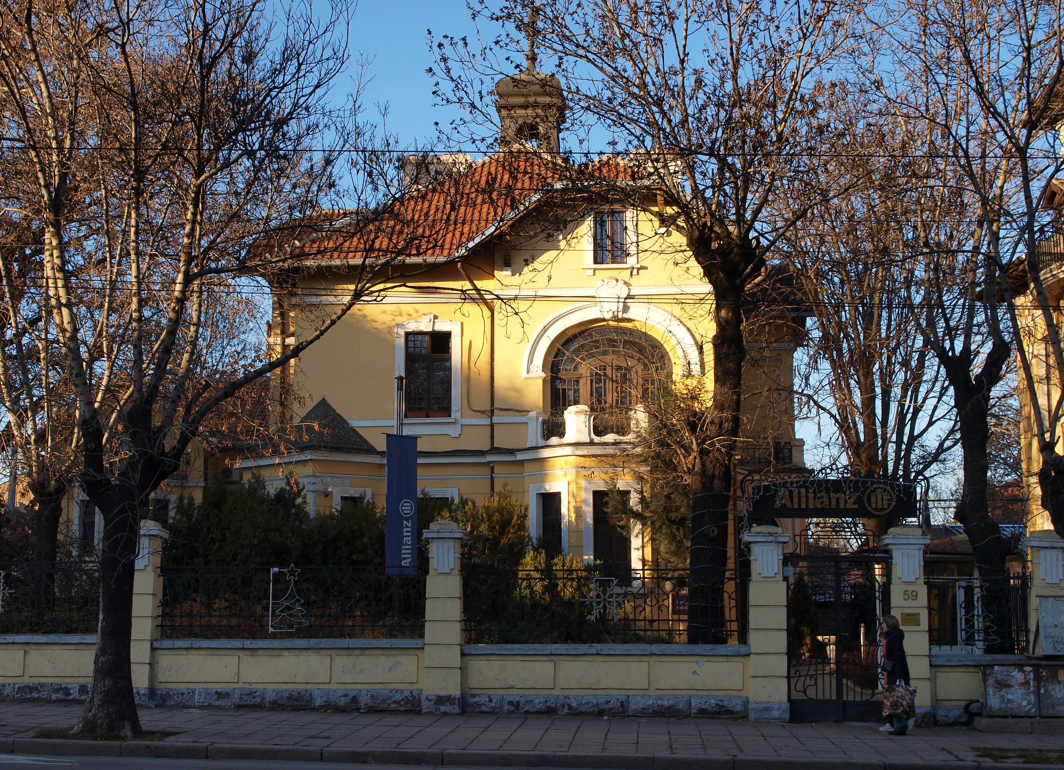 Adolf Laue Funk House in Sofia, today Allianz headquarters